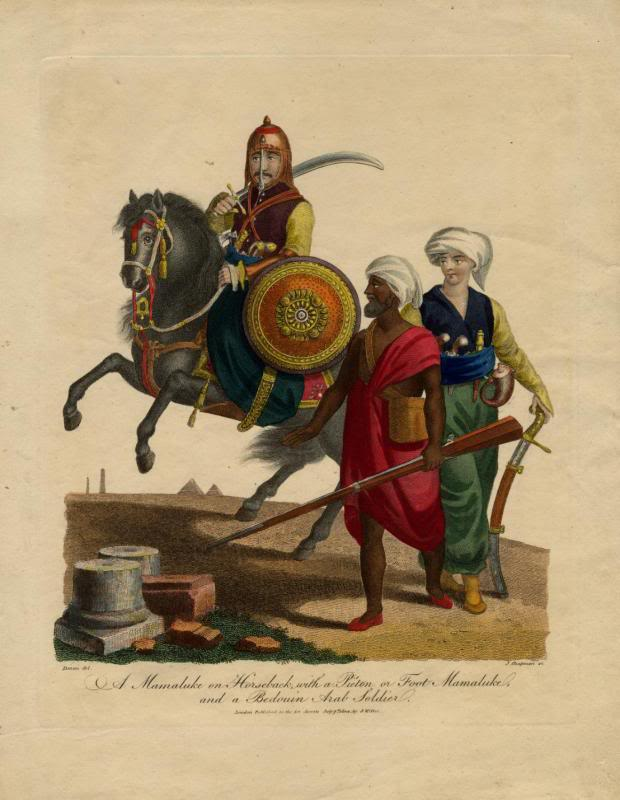 A Mamluk on Horseback, with a Pieton or Foot Mamluk, and a Bedouin Arab Soldier.